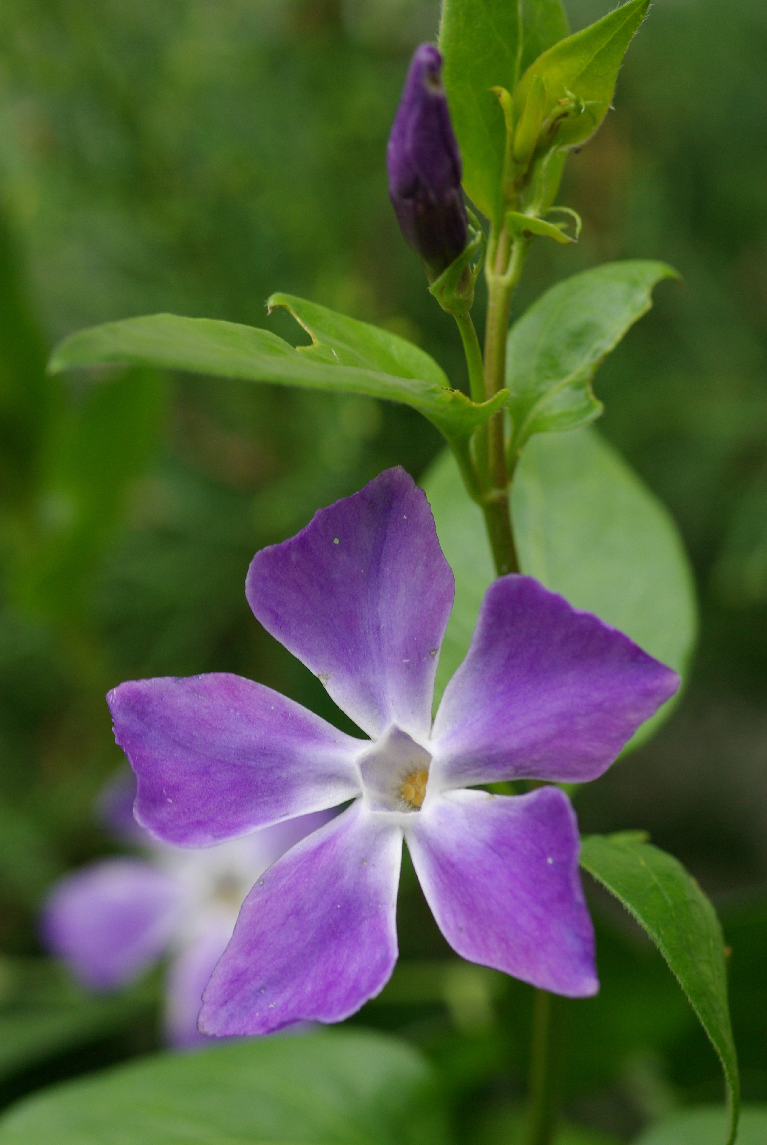 Vinca major